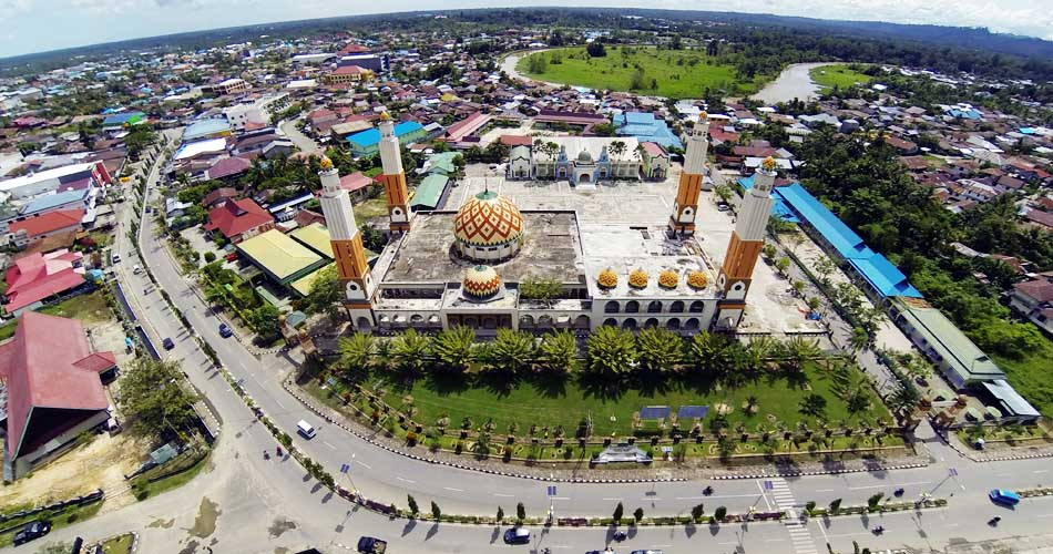 Istiqomah Grand Mosque of Tanjung Selor, Bulungan Regency, North Kalimantan